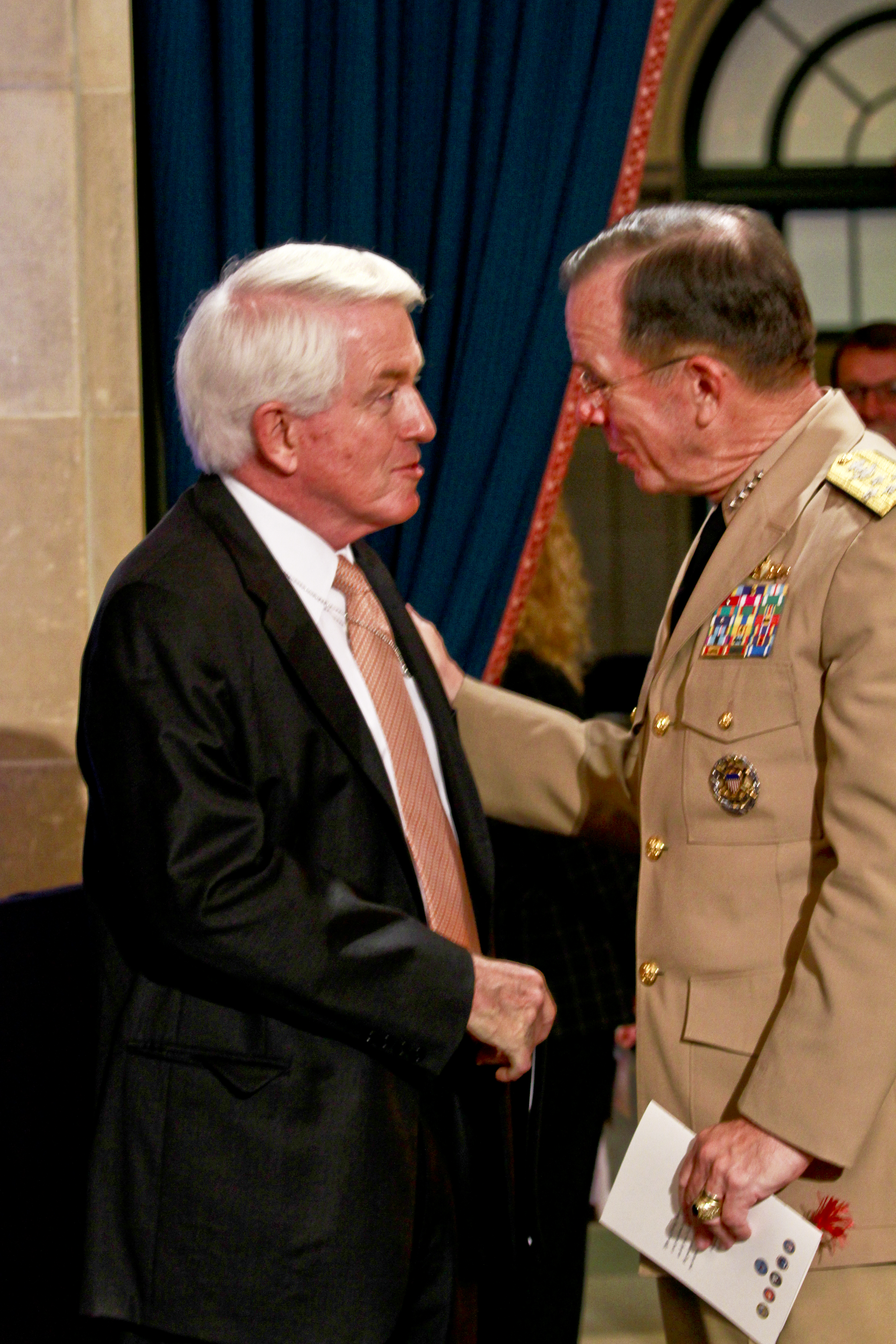 Navy Adm. Mike Mullen, chairman of the Joint Chiefs of Staff, talks with Thomas J. Donohue, president of the U.S. Chamber of Commerce, during the kickoff of the Military Spouse Employment Partnership at the chamber in Washington, D.C.